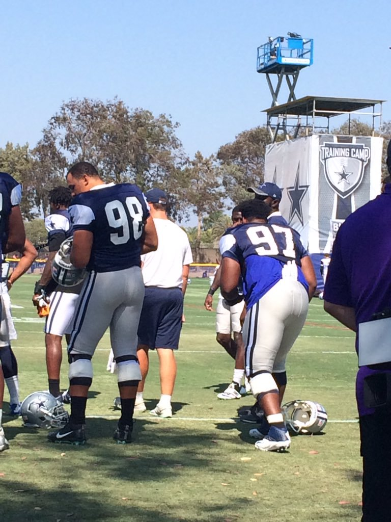 Terrell McClain at Dallas Cowboys Practice in 2016